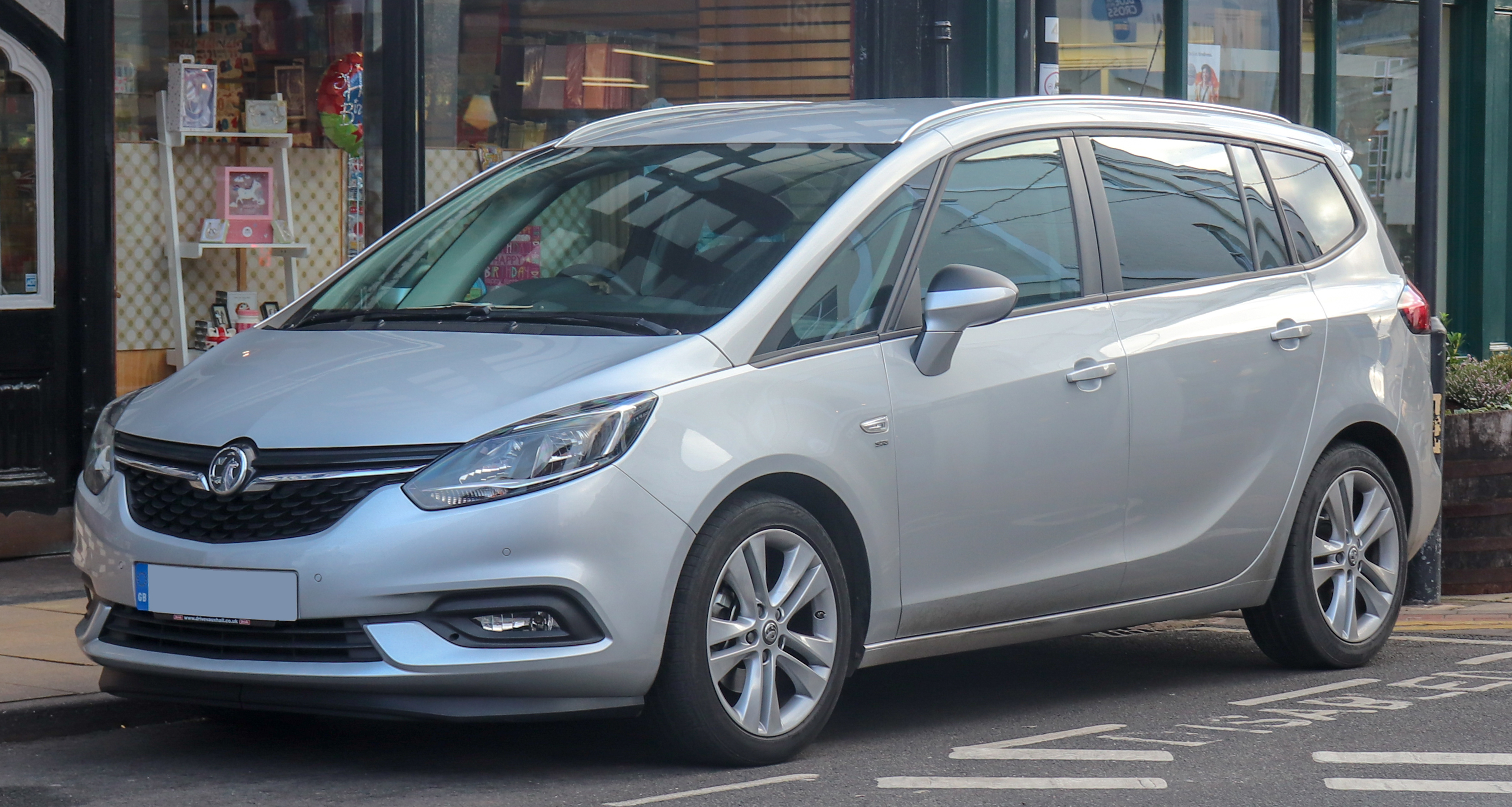 2017 Vauxhall Zafira Tourer SRi Turbo 1.4 Front Taken in Warwick